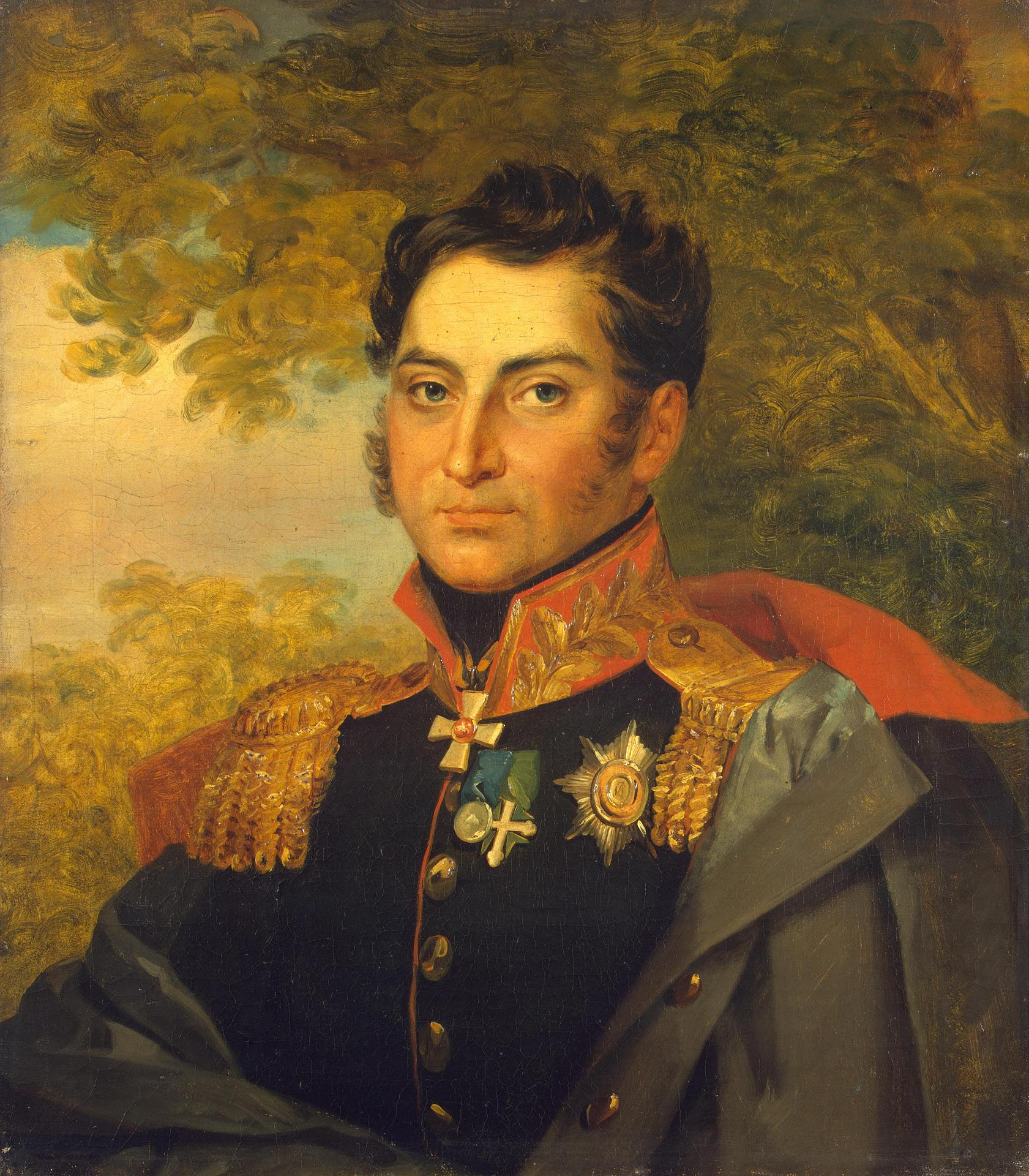 Nikolay Vasilyevich Kretov (12.07.1773 – 11.01.1839) russian general